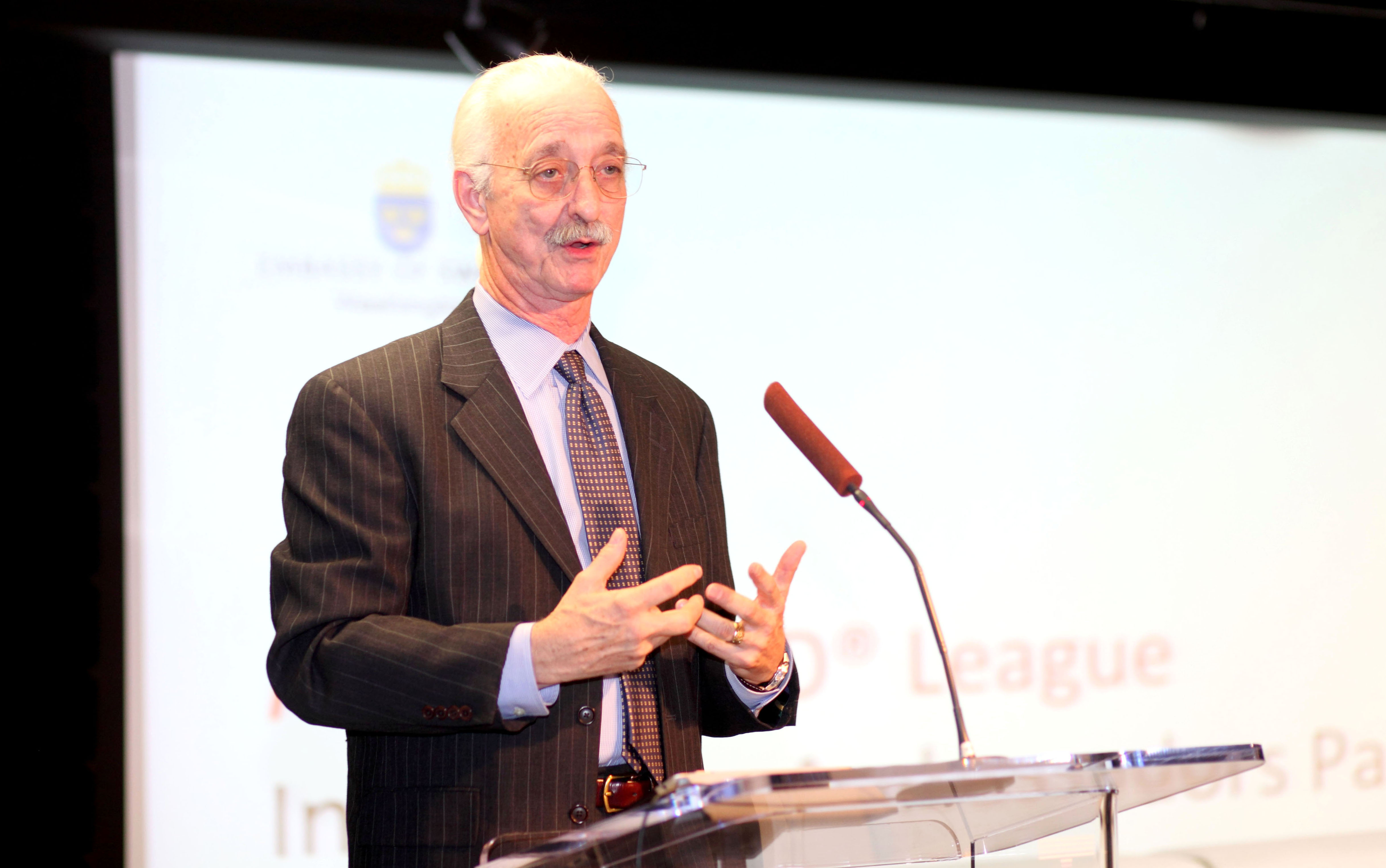 Dr. Woodie Flowers speaking at a seminar at the Embassy of Sweden in Washington, D.C. in December 2012.